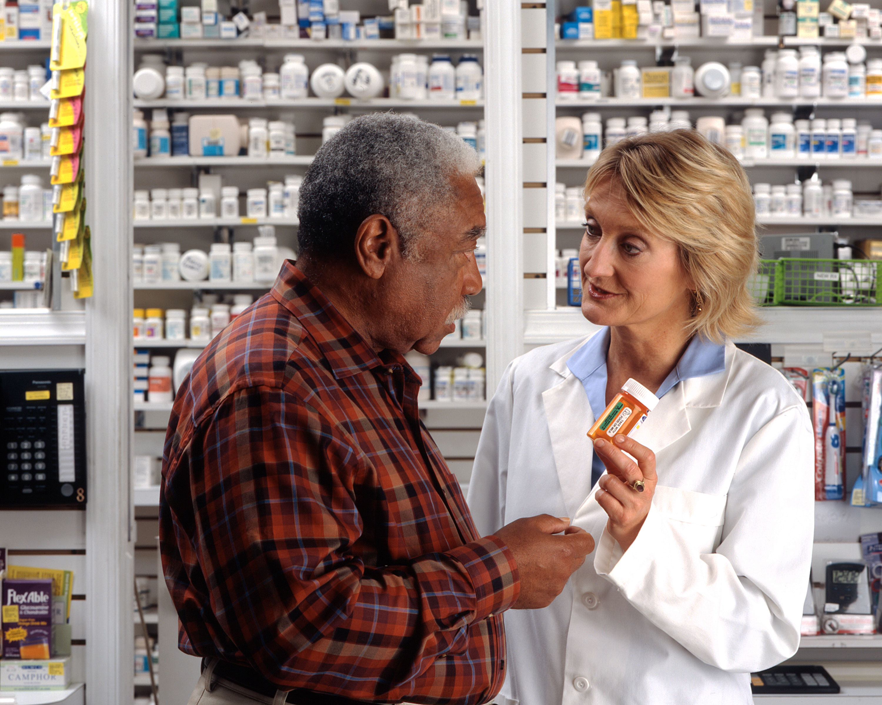 Title Man Consults with Pharmacist Description An older African-American man talks to a Caucasian female pharmacist as she explains his prescription. Topics/Categories Locations -- Clinic/Hospital People -- Adult People -- Health Professional and Patient Type Color, Photo Source National Cancer Institute